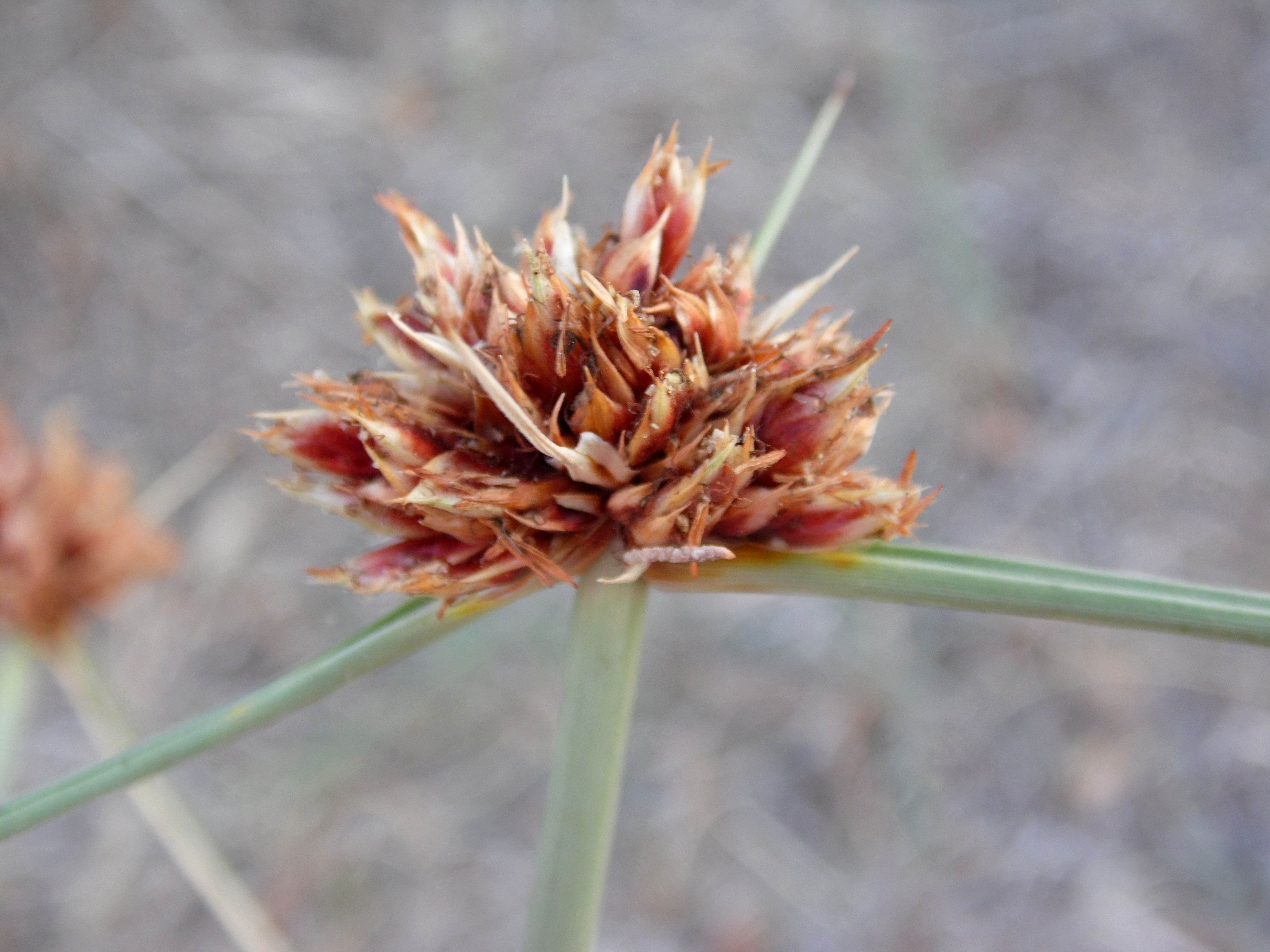 Cyperus capitatus in Dunas de Maspalomas